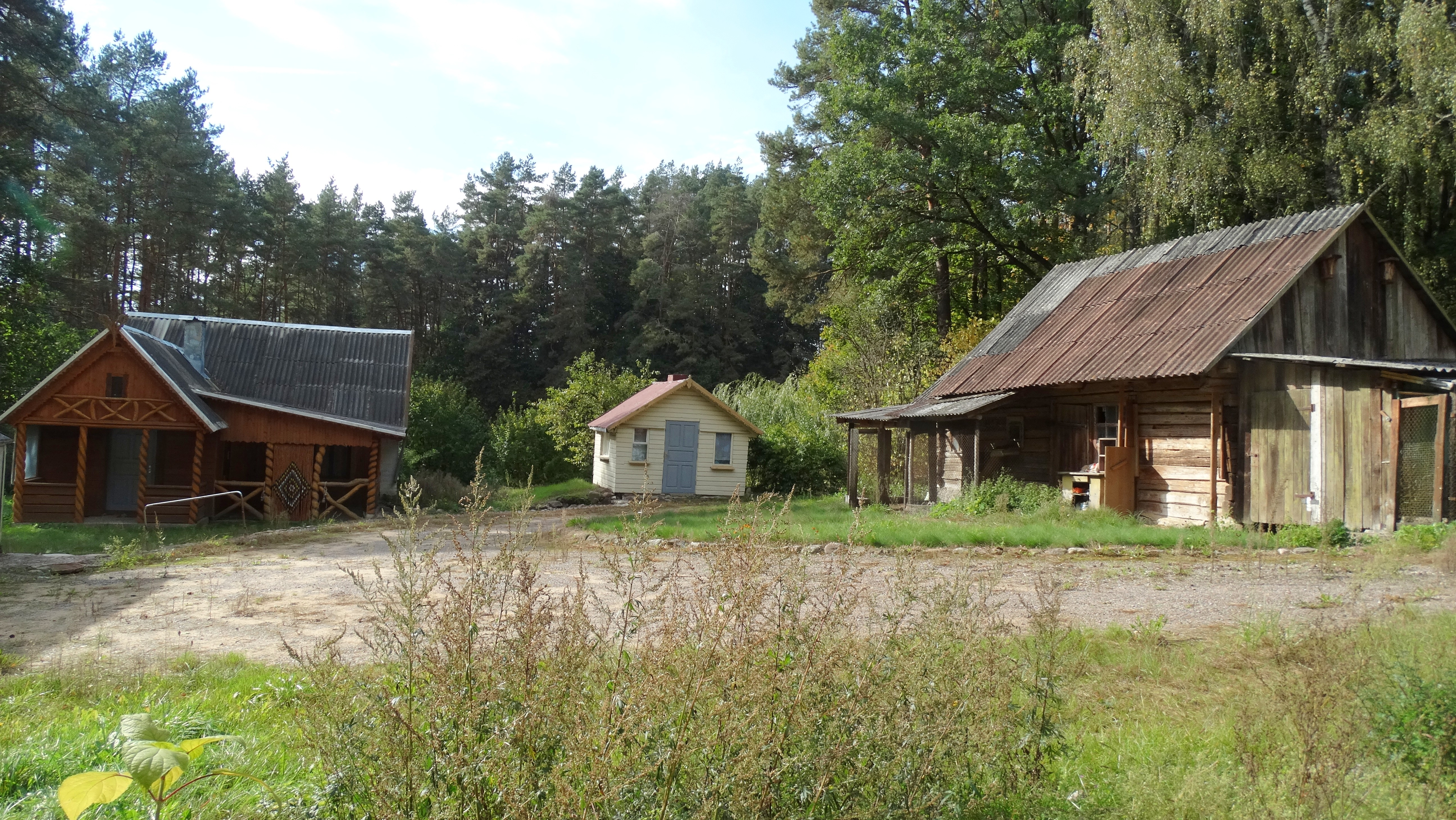 Naujasodis, Prienai district, Lithuania